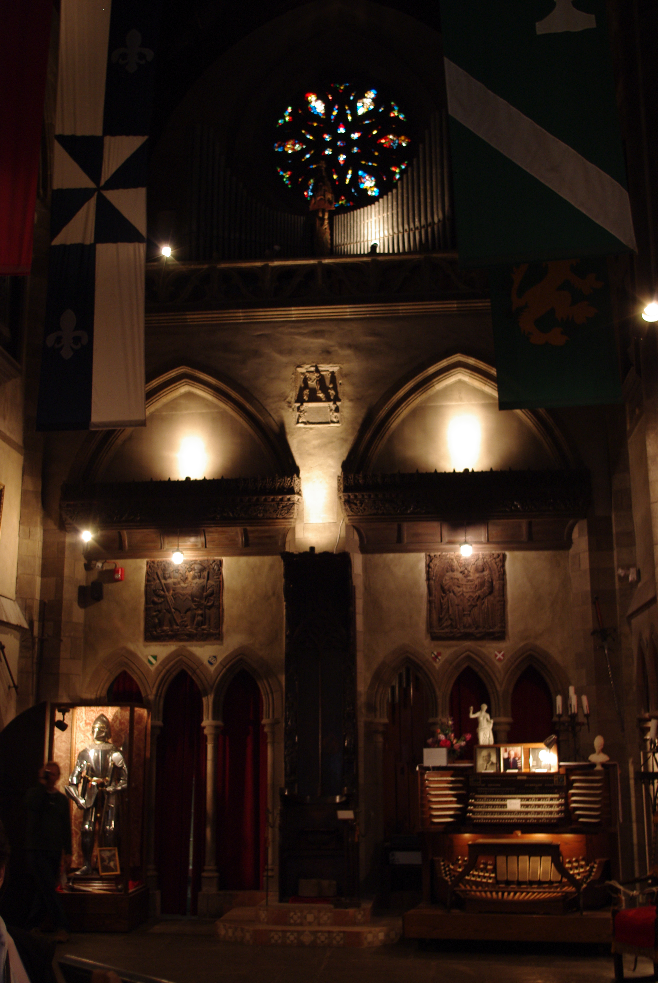 This is the great hall of Hammond Castle in Gloucester, MA.